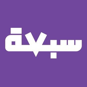 Sabaa Party Emblem